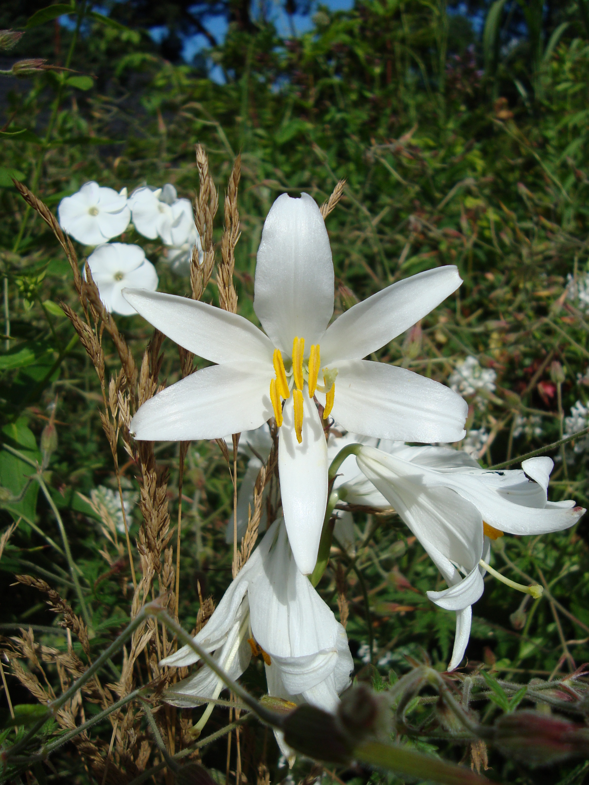 Lilium candidum